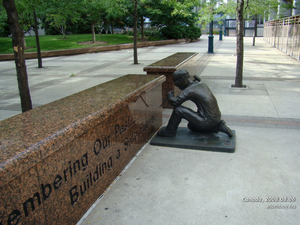 Statue (100 Workers)